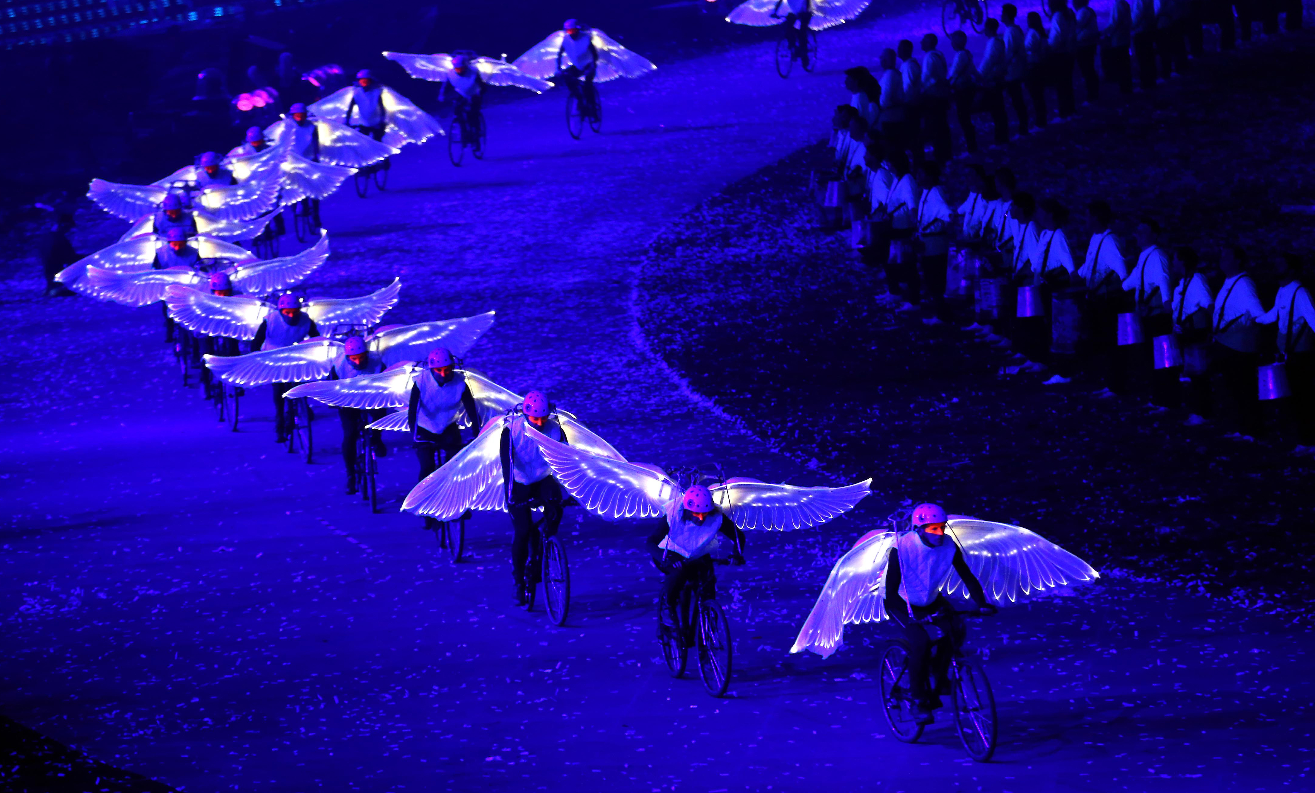 2012 London Olympic Games Opening Ceremony Team Korea 2012.7.29. Photo by Korean Olympic Committee Ministry of Culture, Sports and Tourism Korean Culture and Information Service 2012 런던 올림픽 개막식 행사 한국대표팀 입장 사진제공 - 대한체육회 문화체육관광부 해외문화홍보원